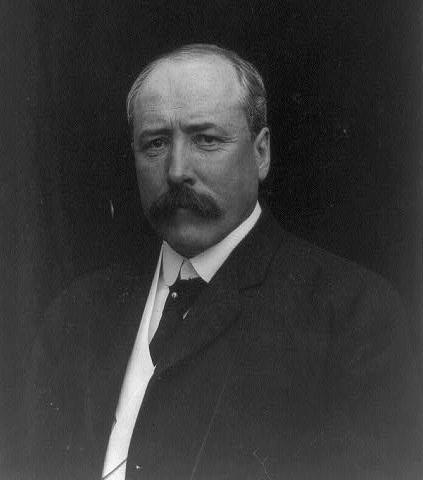 Photo portrait of Alton B. Parker, 1904 US Democratic Party candidate for President of the United States.